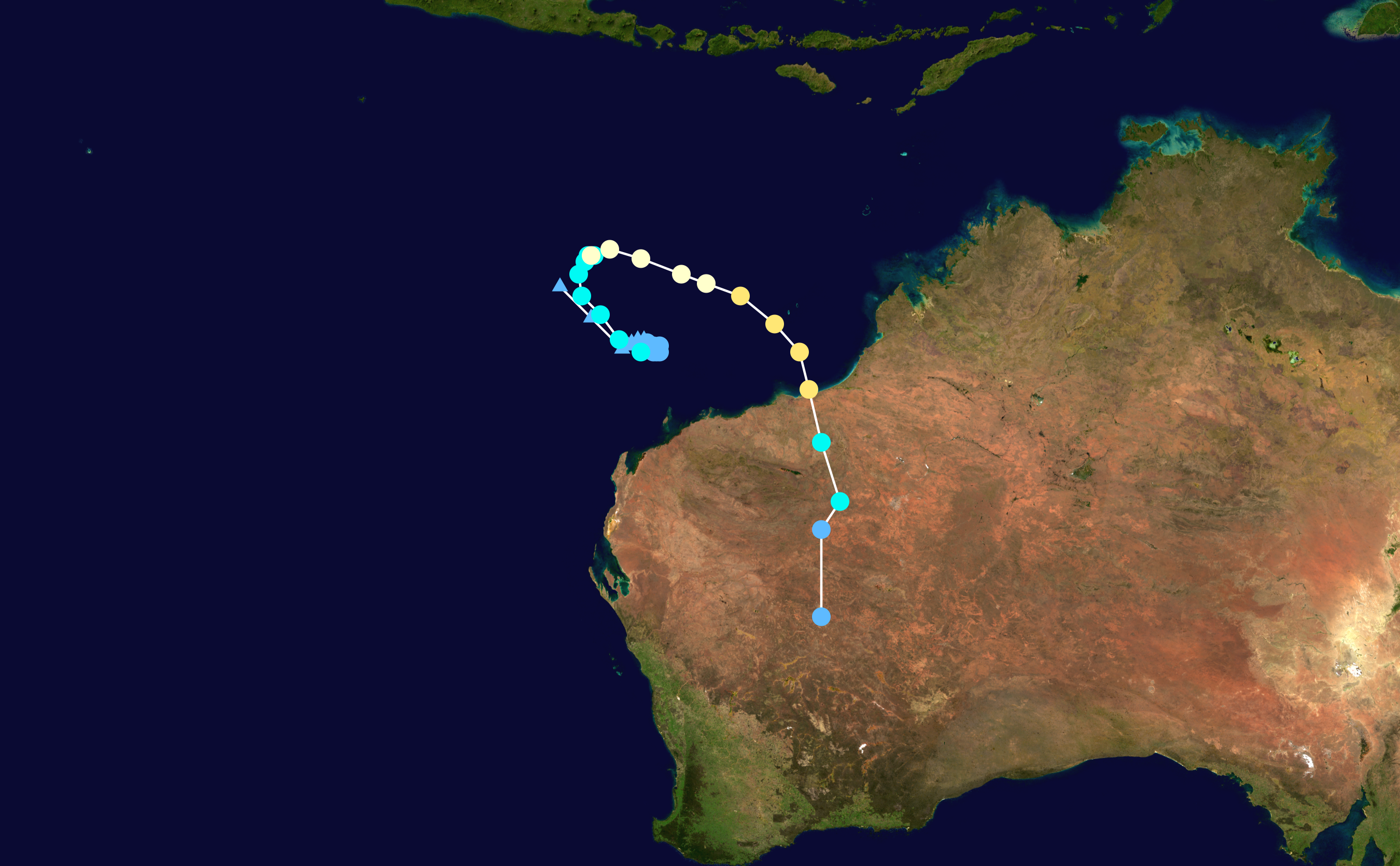 Track map of Severe Tropical Cyclone Lua of the 2011-12 Australian region cyclone season. The points show the location of the storm at 6-hour intervals. The colour represents the storm's maximum sustained wind speeds as classified in the Saffir–Simpson scale (see below), and the shape of the data points represent the nature of the storm, according to the legend below. Saffir–Simpson scale Tropical depression≤38 mph≤62 km/h Category 3111–129 mph178–208 km/h Tropical storm39–73 mph63–118 km/h Category 4130–156 mph209–251 km/h Category 174–95 mph119–153 km/h Category 5≥157 mph≥252 km/h Category 296–110 mph154–177 km/h Unknown Storm type Tropical cyclone Subtropical cyclone Extratropical cyclone / Remnant low / Tropical disturbance / Monsoon depression